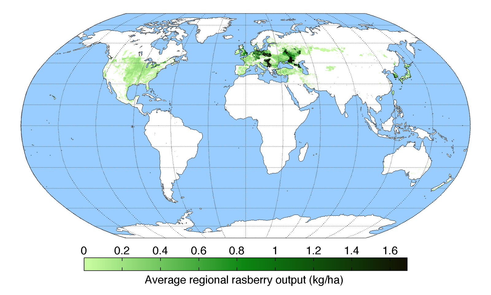 Map of raspberry production (average percentage of land used for its production times average yield in each grid cell) across the world compiled by the University of Minnesota Institute on the Environment with data from: Monfreda, C., N. Ramankutty, and J.A. Foley. 2008. Farming the planet: 2. Geographic distribution of crop areas, yields, physiological types, and net primary production in the year 2000. Global Biogeochemical Cycles 22: GB1022